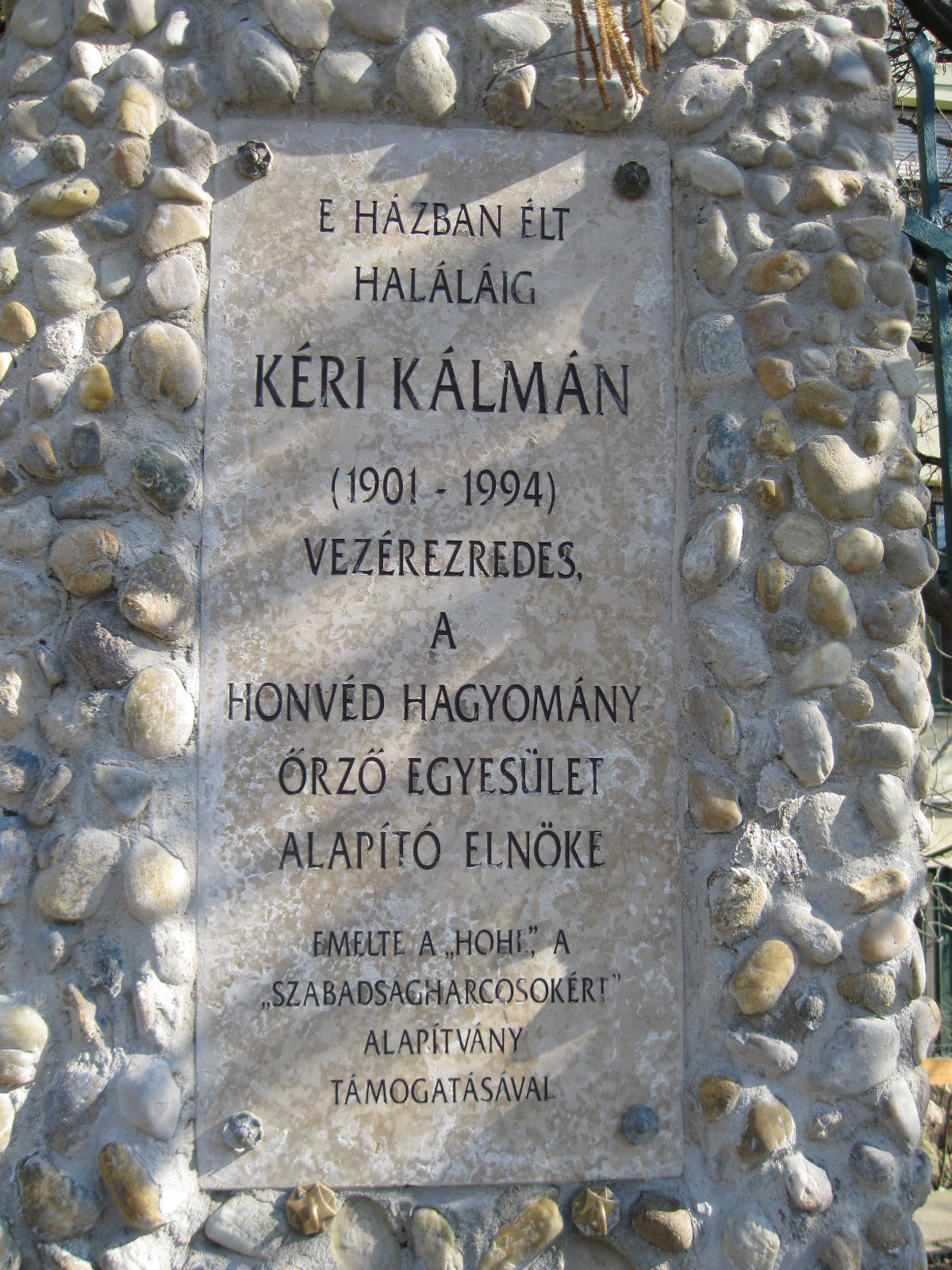 Kálmán Kéri plaque in Budapest District II, Érmelléki Street No 9.